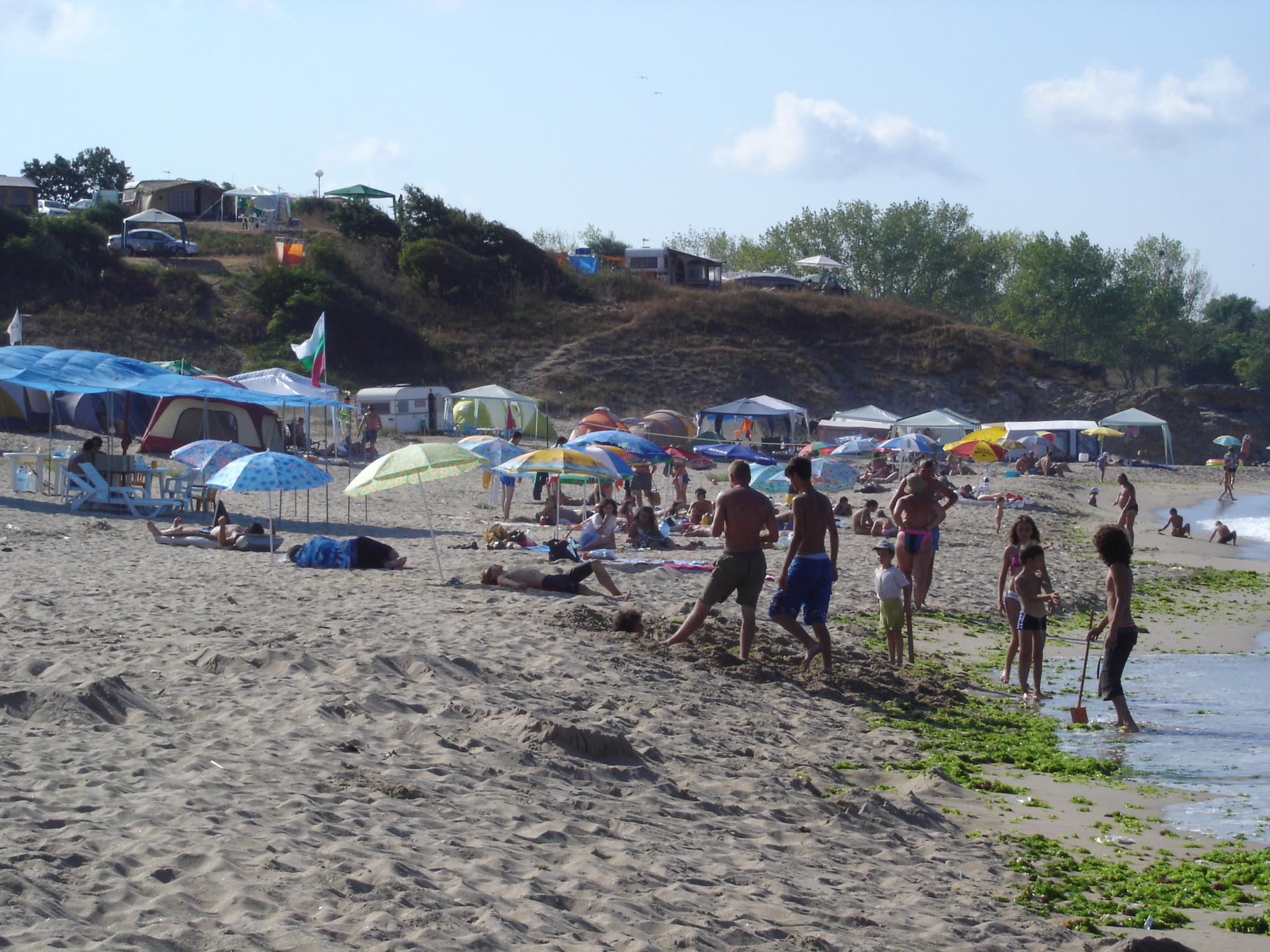 Camping South near Primorsko, Bulgaria